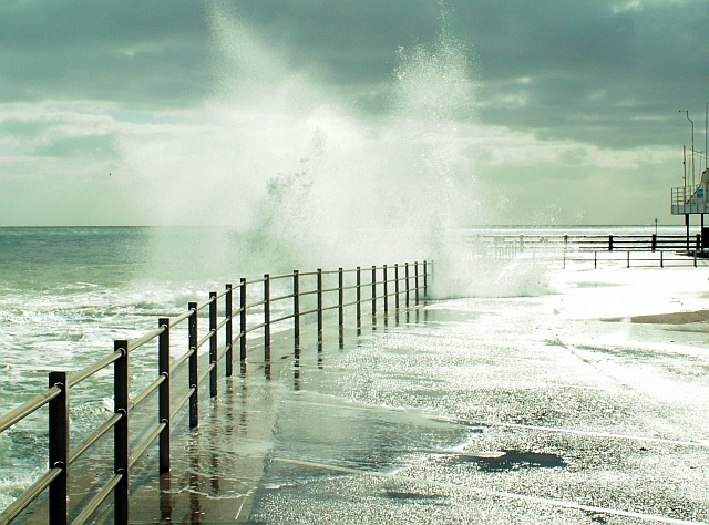 Sea spray High tide on a windy autumn day, Broadstairs Pier.